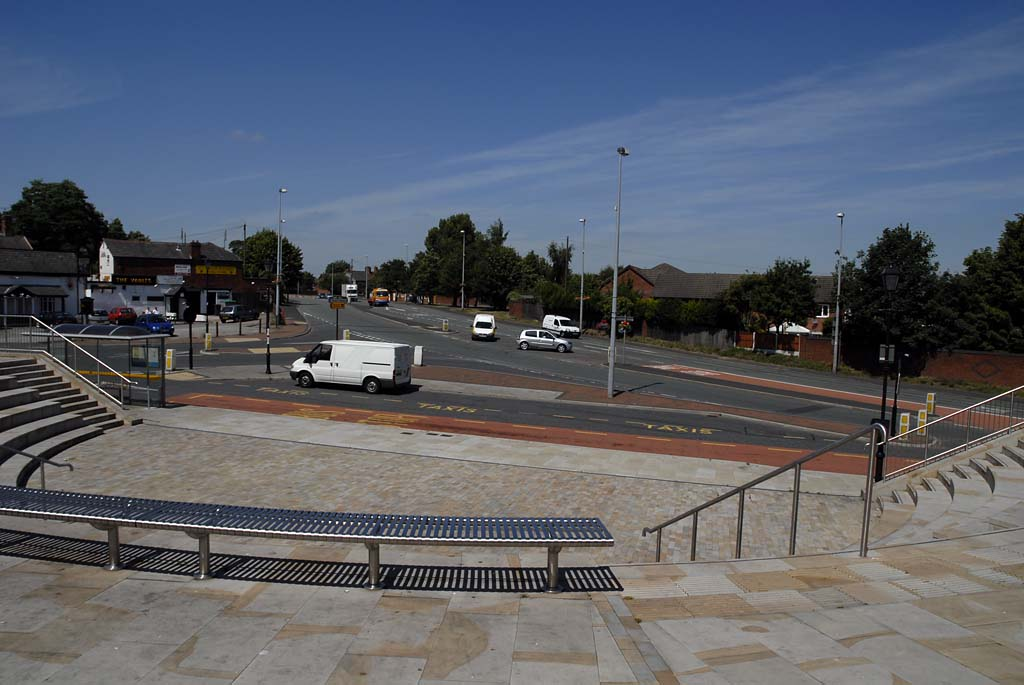 Picture of the Roman Theatre at Middlewich, Cheshire. Picture taken by self. 2006